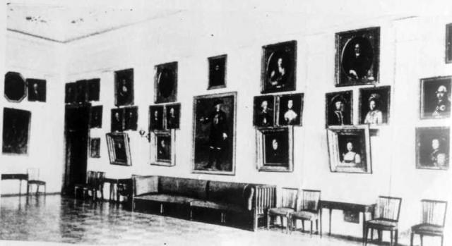 Portrait gallery of the Galitzine Palace in Zubrilovka. It was destroyed by fire in 1905.